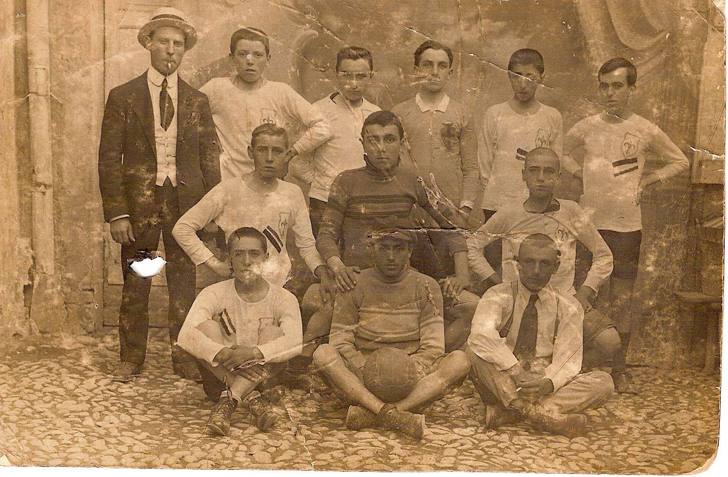 Fooball team